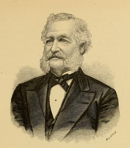 Portrait of New York state senator Cheney Ames